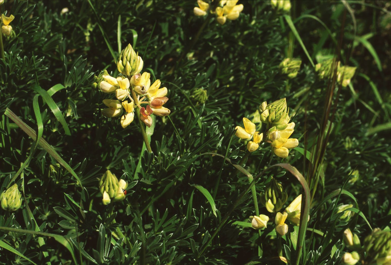 Lupinus arboreus, Hülsenfrüchtler (Fabaceae), Faboideae - USA, Kalifornien/California: Point Reyes National Seashore, beim Leuchtturm/next to the lighthouse (Marin County)